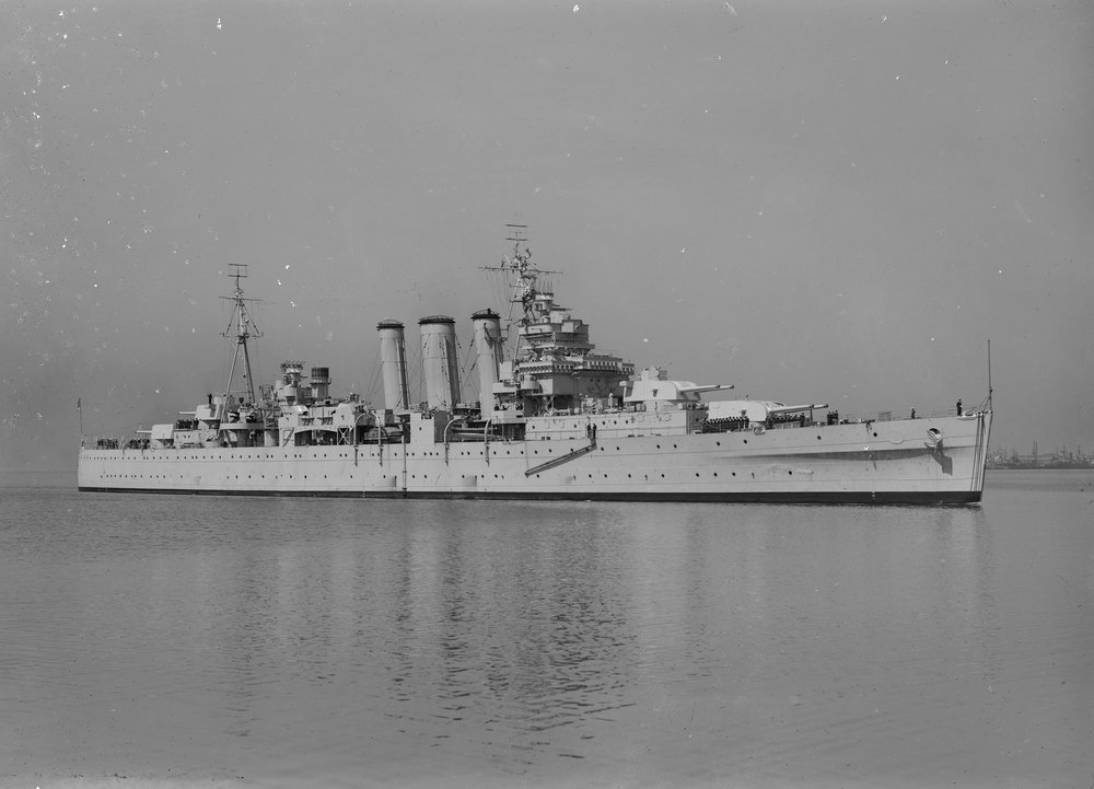 HMAS Shropshire.